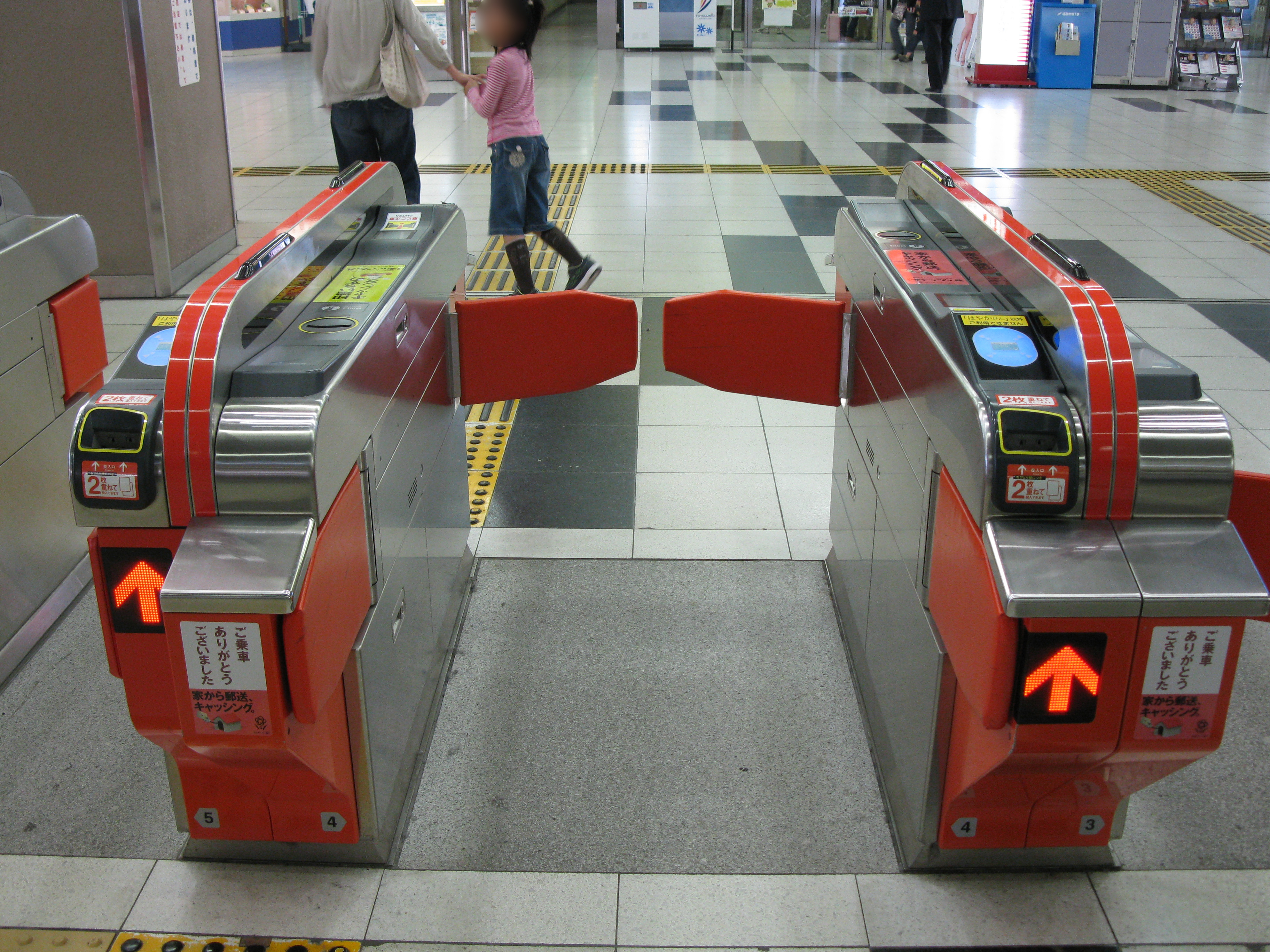 Hayakaken card reader on a gate, Meinohama Station